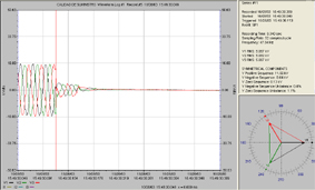 Osciloperturbografía real de un consumidor eléctrico en España, realizada mediante software de análisis PAS sobre un equipo analizador PM296 de la marca SATEC Powerful Solutions.